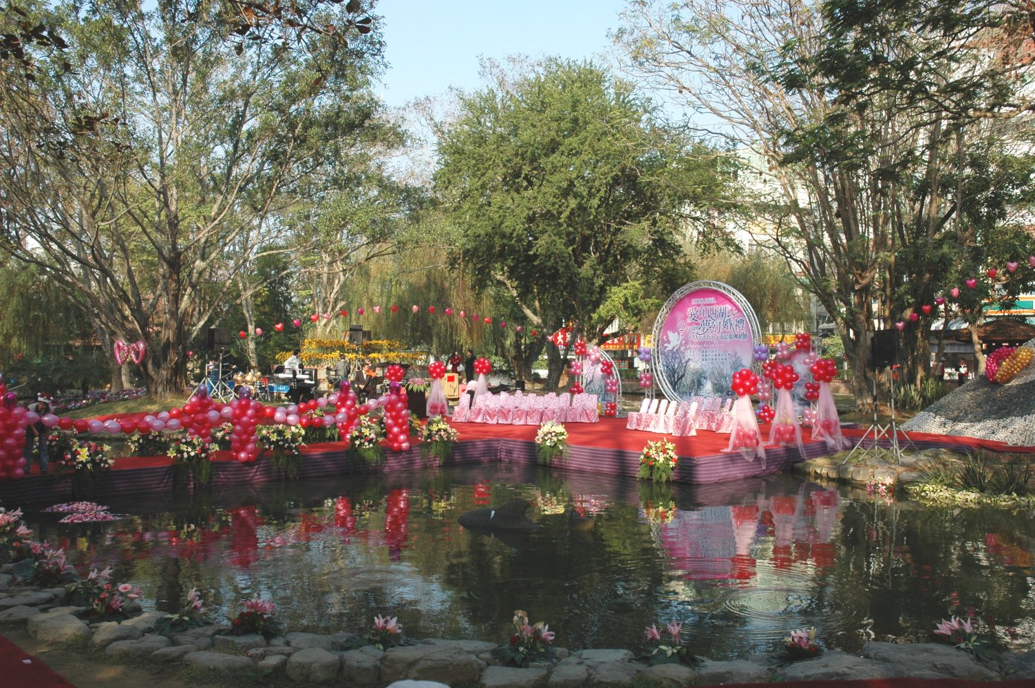 ChiaYiPark 20080105 Wedding 4